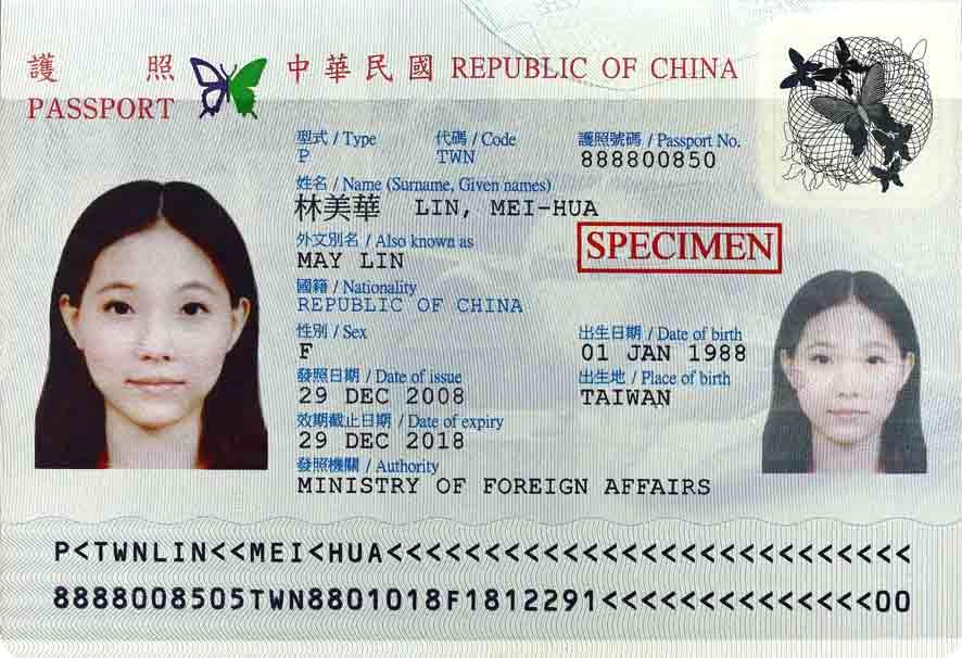 Data page of Republic of China passport held by national without household registration, thus lacking an identity number.